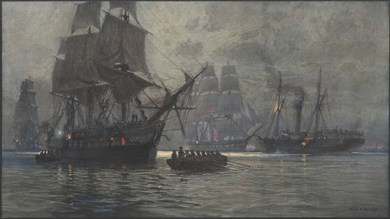 Plate No. 7 from the series 'Our War Fleet 1556-1908' (Ljubljana, 1908), edited by Alfred von Koudelka after paintings by marine painter Alexander Kircher.This painting depicts the revolutionary lagoon Republic of San Marco being blockaded by the Austrian Navy in 1849.